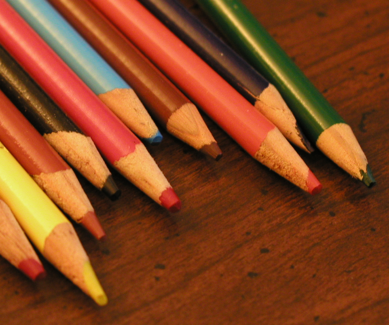 A random selection of colored pencils. The photographer intends to take a higher-quality version of this photograph in the future. The changes that will be made are as follows: Improve sharpness and focus